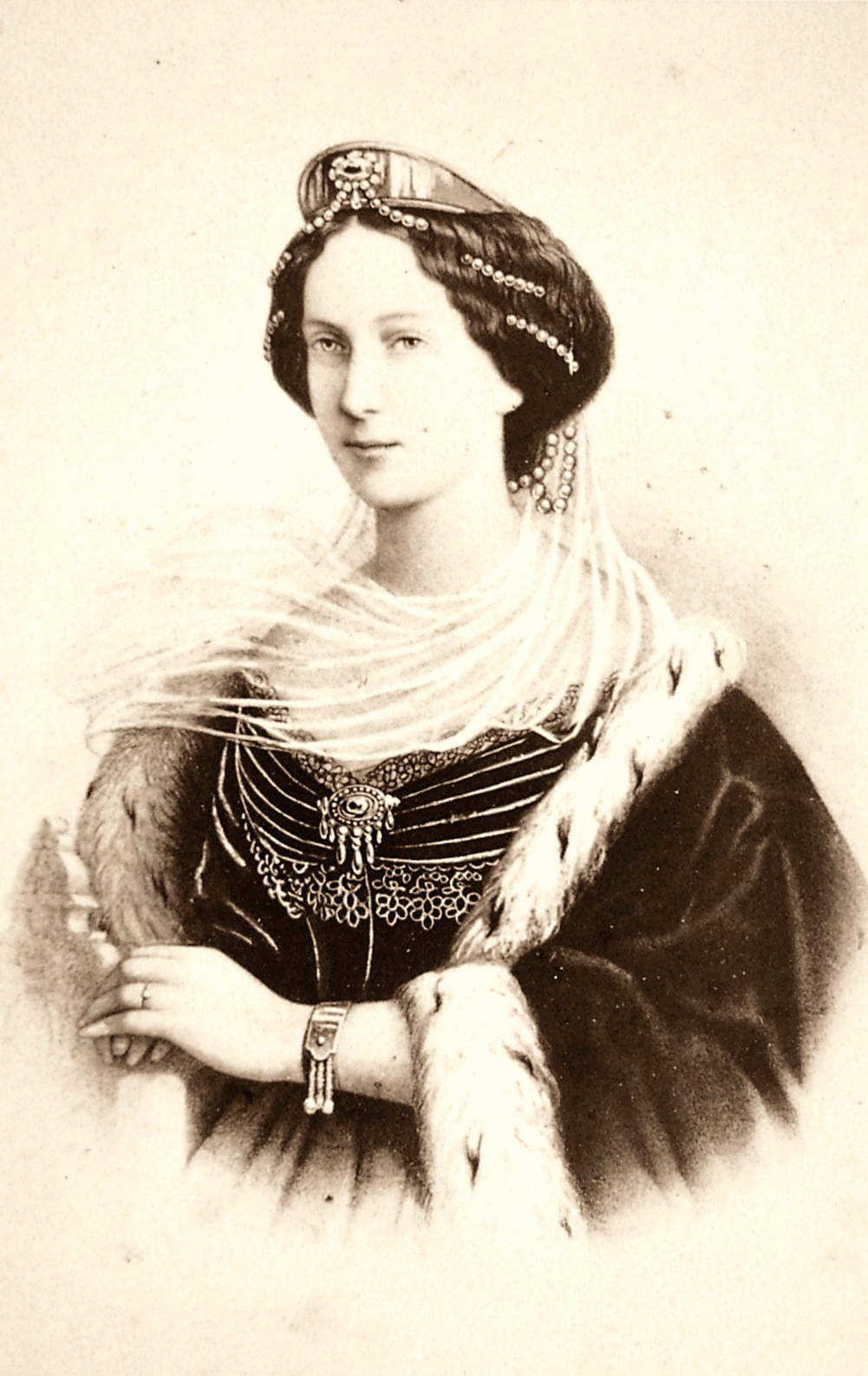 Marie of Hesse-Darmstadt, Maria Alexandrovna Empress of Russia